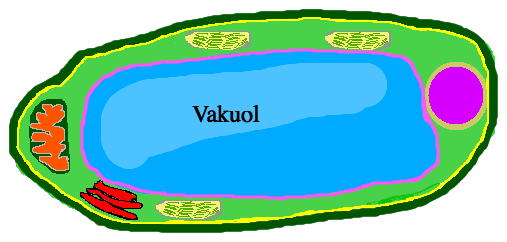 Vacuole in the plantcell